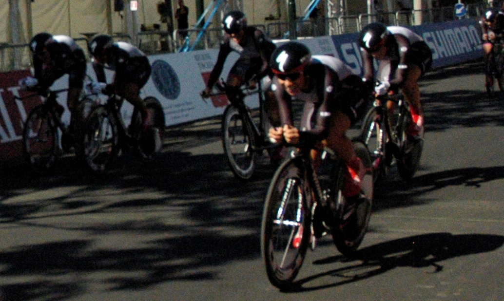 2013 UCI Road World Championships – Women's team time trial